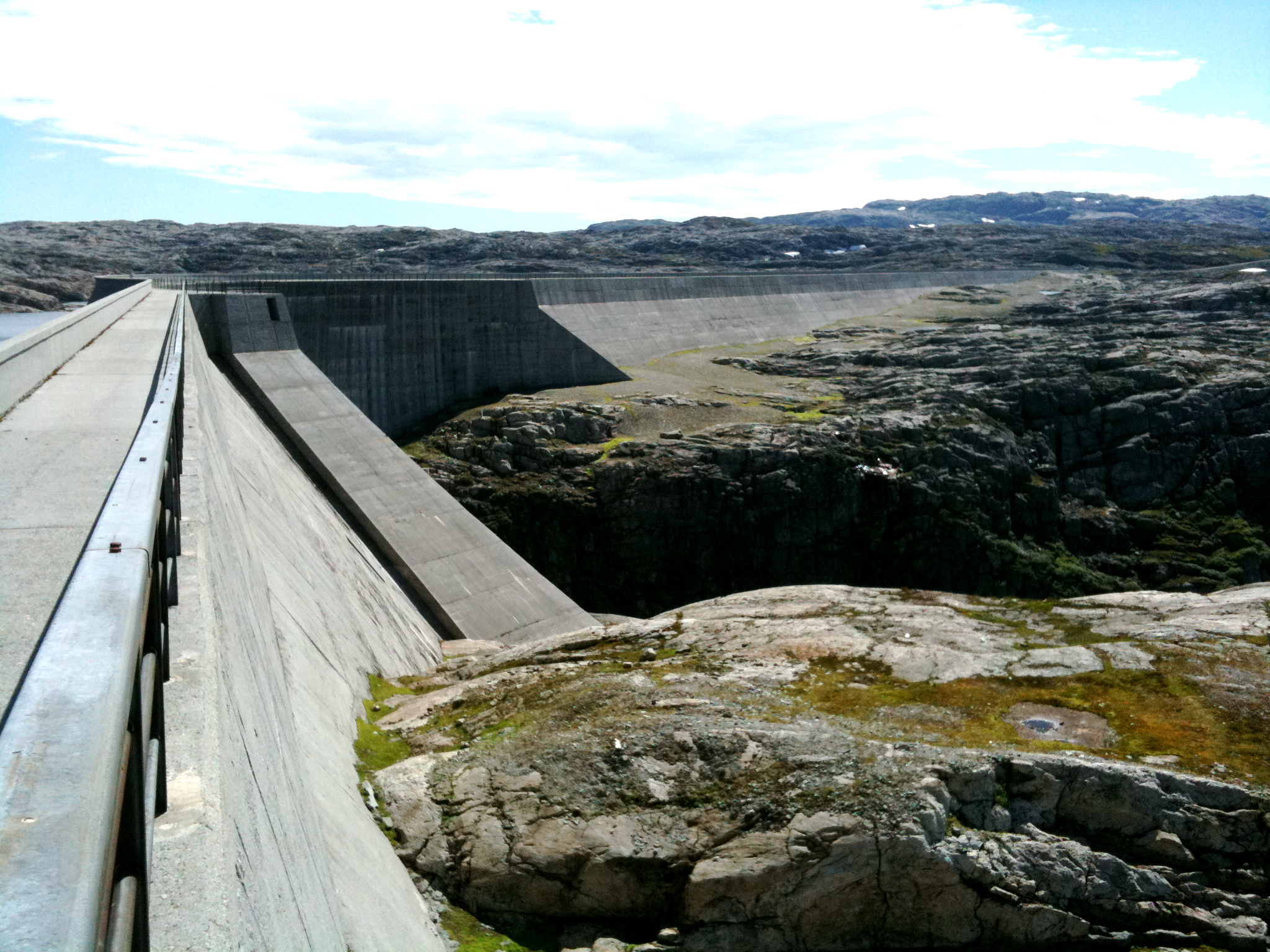 Førrevassdammen a dam in Suldal municipality in Rogaland, Norway. The dam is a part of Blåsjø.